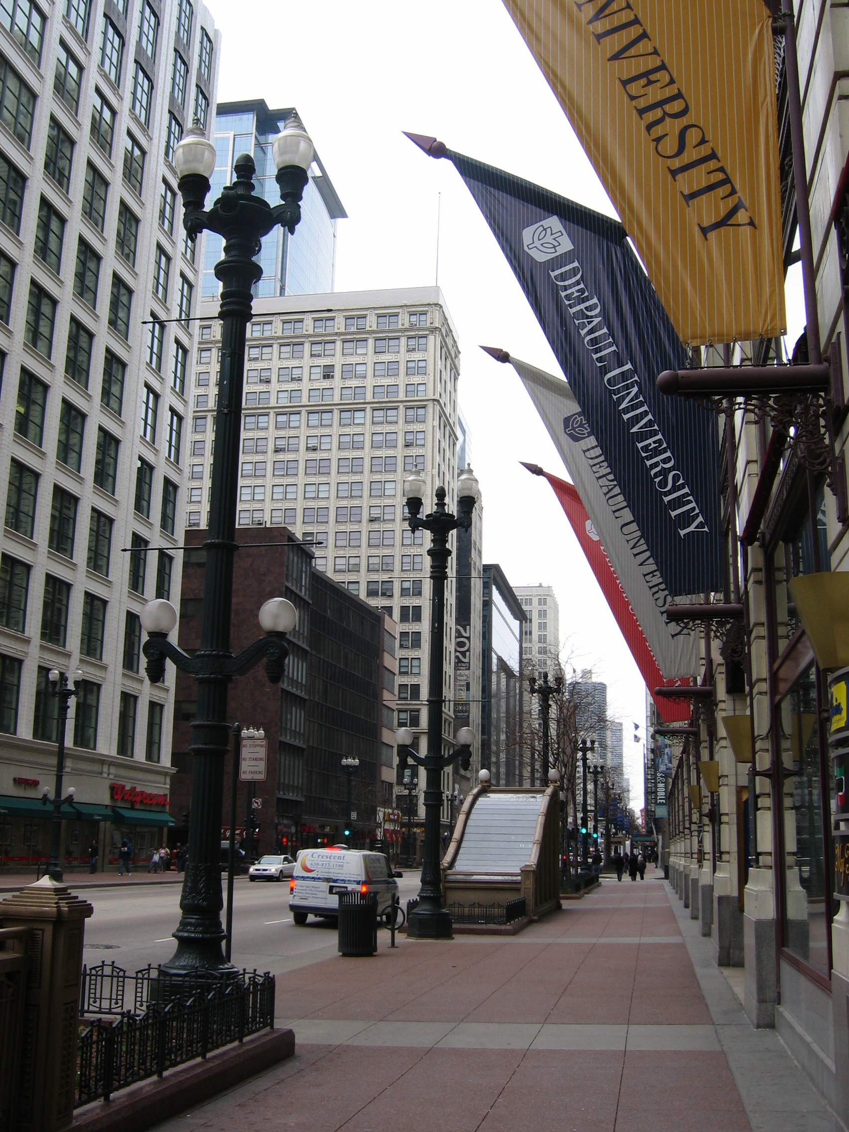 DePaul University's downtown Chicago campus. Photo by User:Kmf164, taken on March 12, 2006.